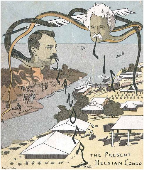 Cartoon on the front cover of An Answer to Mark Twain, anonymously published in Brussels (1907) in reply to King Leopold's Soliloquy. Pictured are Mark Twain and E.D. Morel.